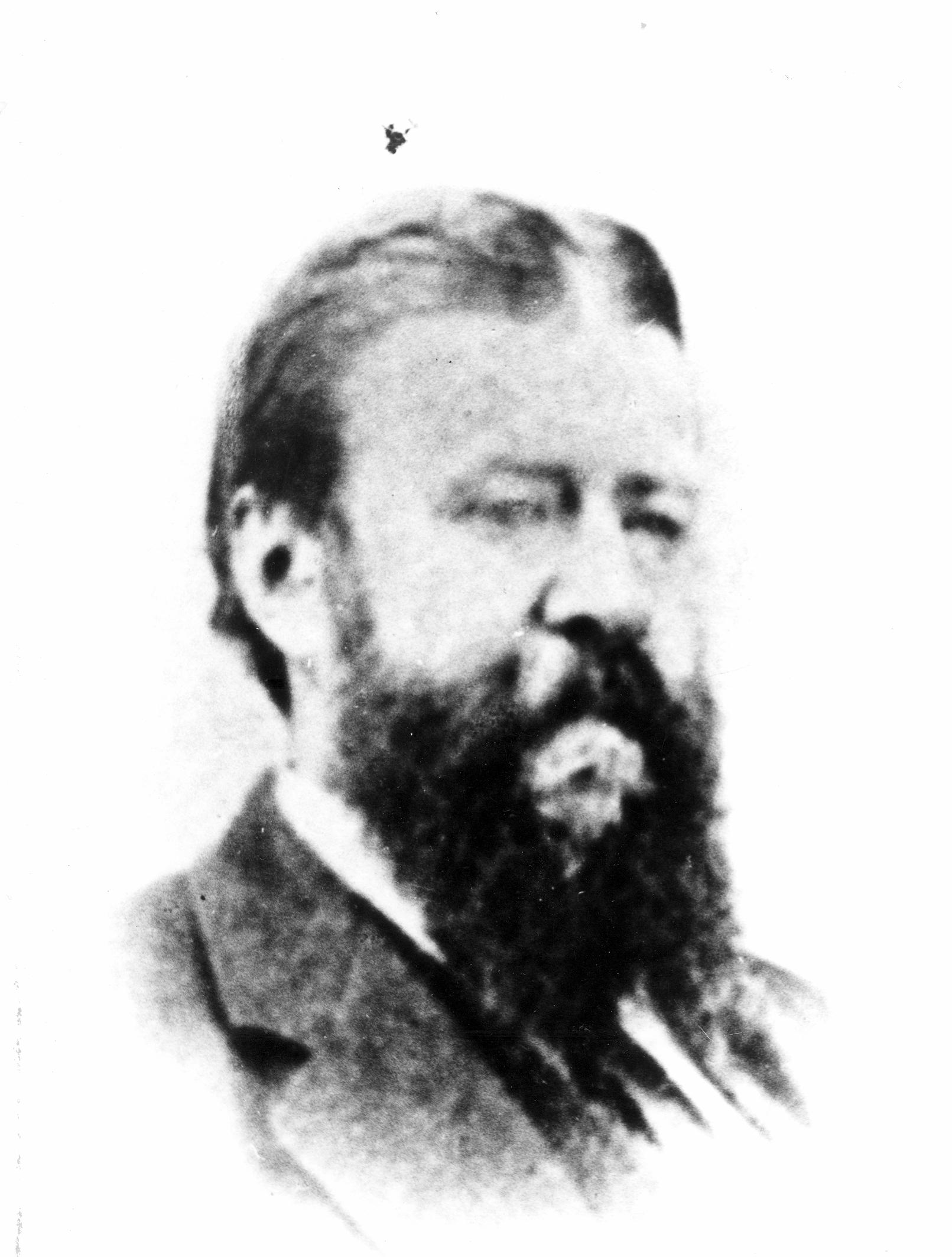 Honorary George Buckley, Christchurch